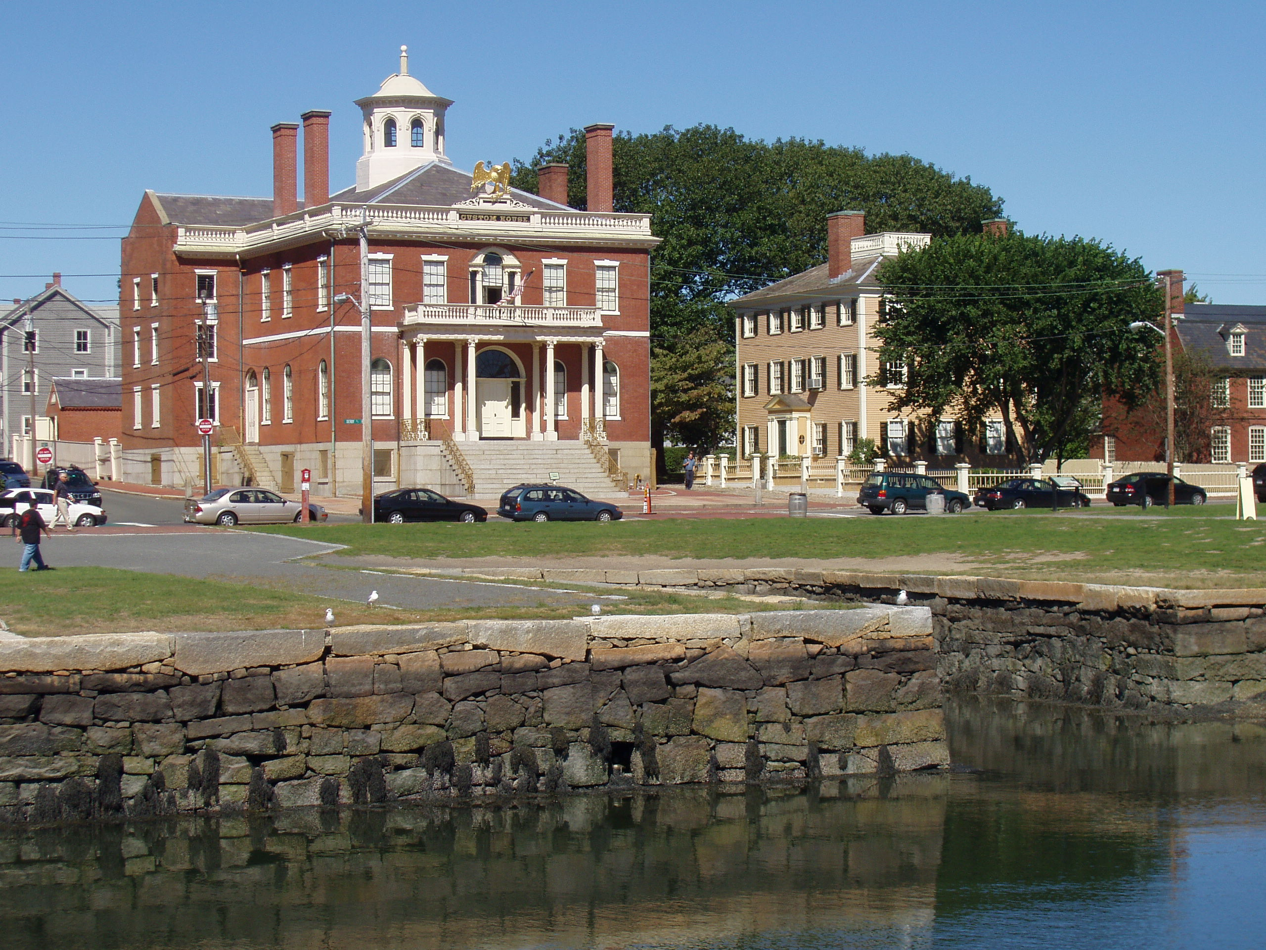 Custom House - Salem, Massachusetts. Photograph taken by me, September 2005.